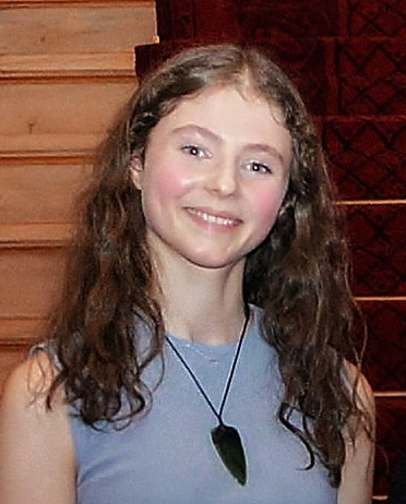 Thomasin McKenzie, at a dinner in Government House, Wellington, on 19 September 2018, to celebrate the 125th anniversary of women's suffrage in New Zealand